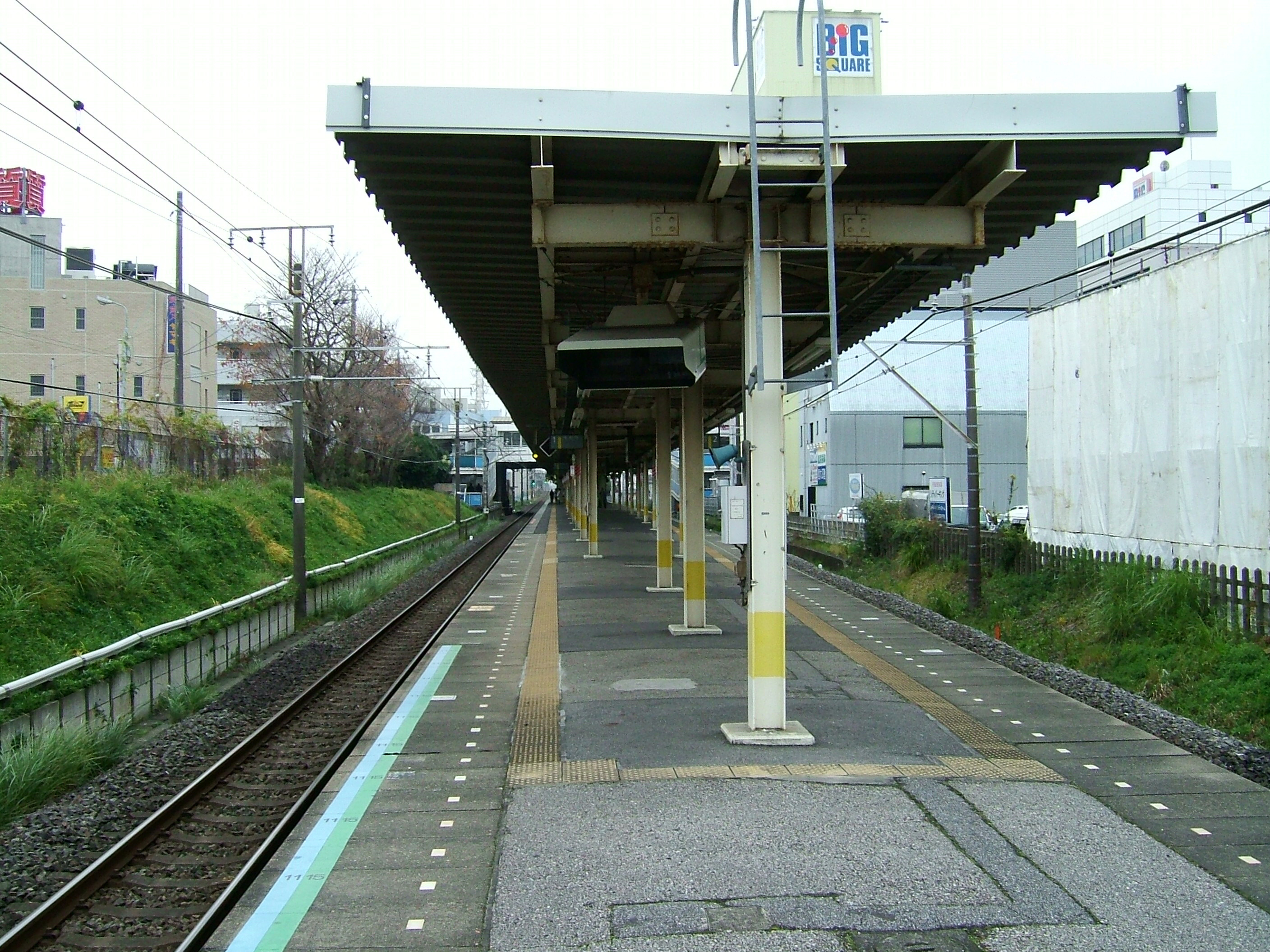 The platform at Tsuga Station on the Sōbu Main Line in Chiba city, Chiba prefecture, Japan